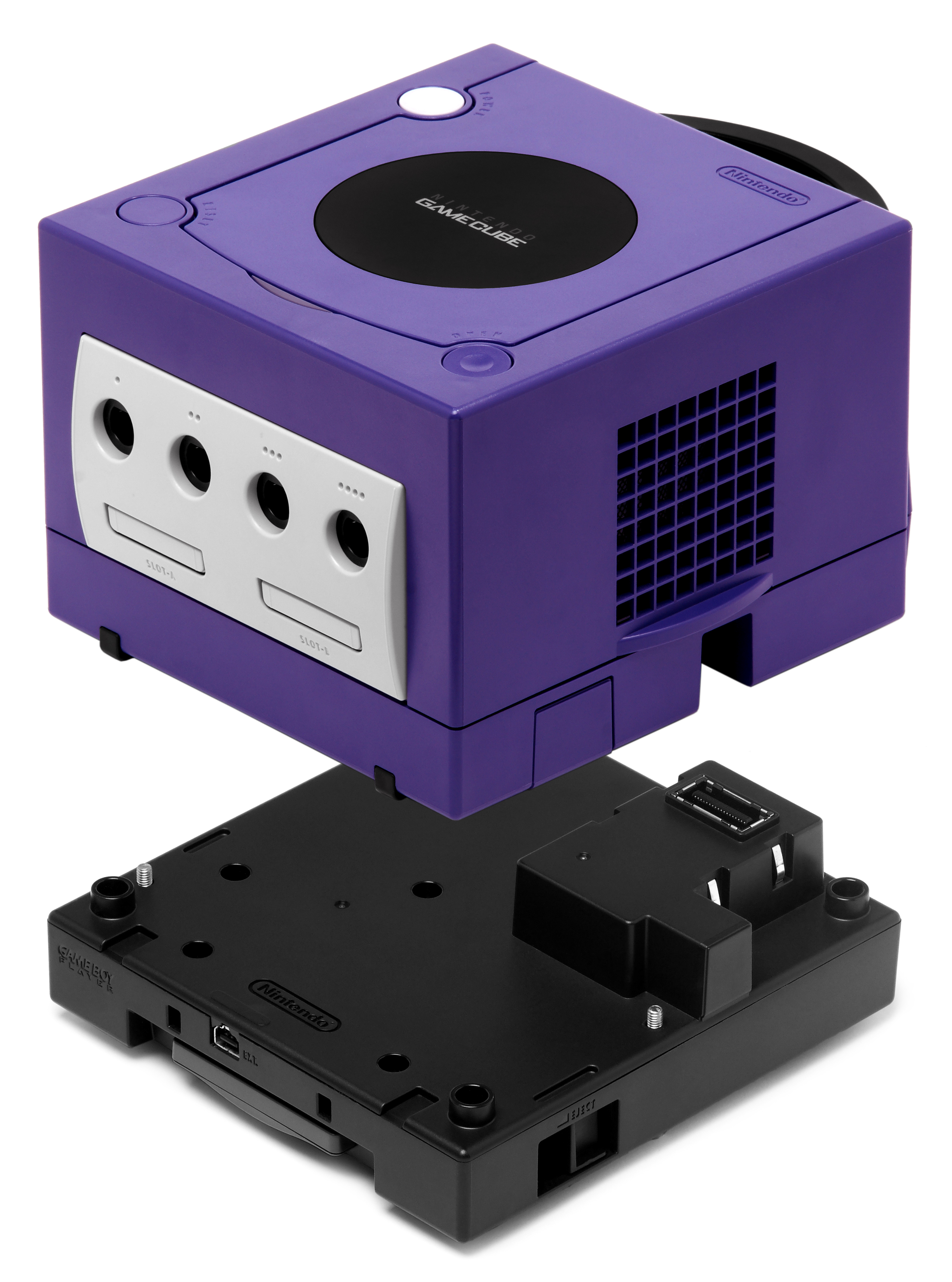 The GameCube Game Boy Player shown under a GameCube before being attached. A Game Boy Advance cartridge has been inserted.